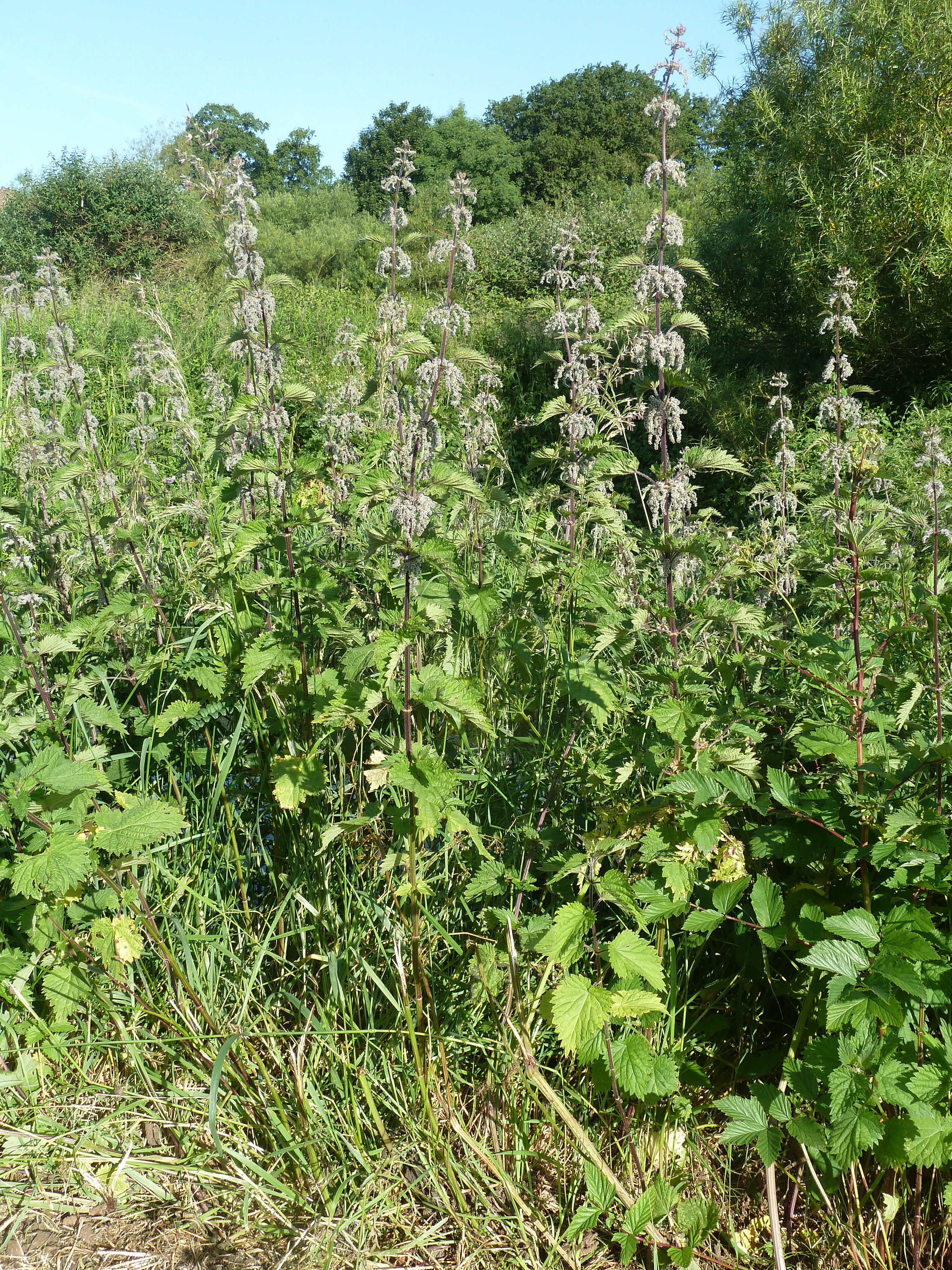 Hilden, Co. Antrim, Ireland, June Flora Hildena